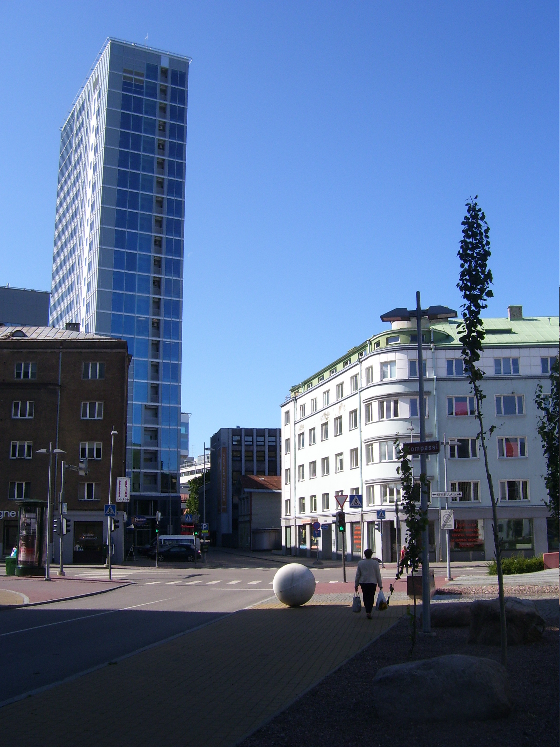 The quarter of Kompassi, Tallinn, Estonia.